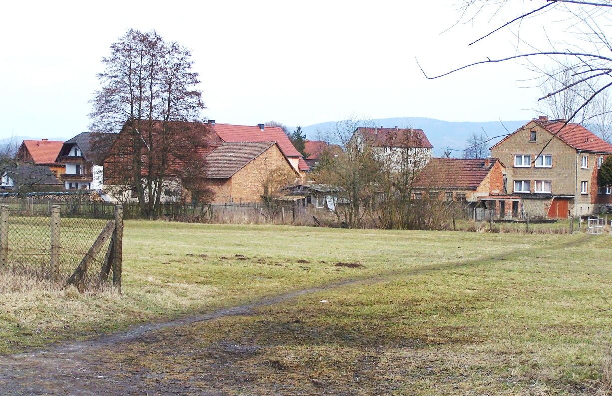 Oberrohn, Röhrigshof.